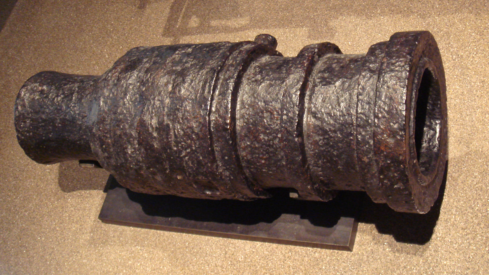 200Kg Wrought Iron Bombard, 1450 Metz France